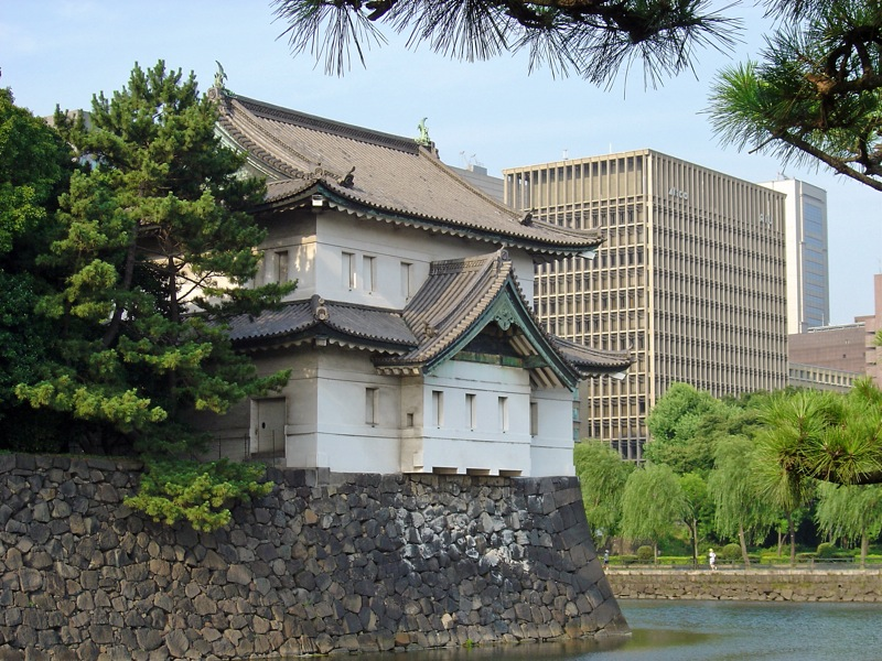 Edo Castle was built in 1457 by Ōta Dōkan in what is now the Chiyoda ward of Tokyo, but was then known as Edo, Toshima District, Musashi Province. Tokugawa Ieyasu established the Tokugawa shogunate here, and as the residence of the shogun and location of the bakufu, it functioned as the military capital during the Edo period of Japanese history. Along with the Meiji Restoration, it became the residence of the Emperor of Japan, or in Japanese kōkyo. Some moats, walls and ramparts survive. However, during the Edo period, the grounds were much more extensive, with Tokyo Station and the Marunouchi section of the city lying within the outermost moat. It also encompassed Kita-no-maru Park, the Nippon Budokan Hall and other landmarks of the area. Edo Castle